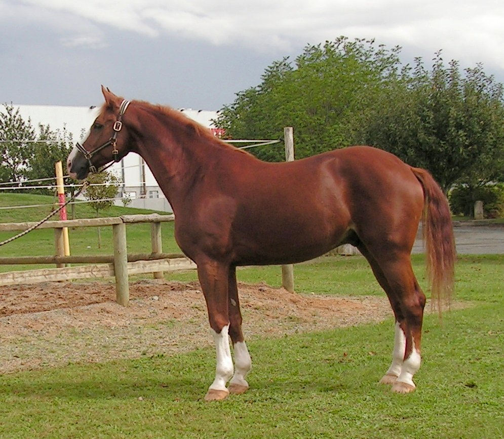 Avenger : 7 years old Westphalian horse